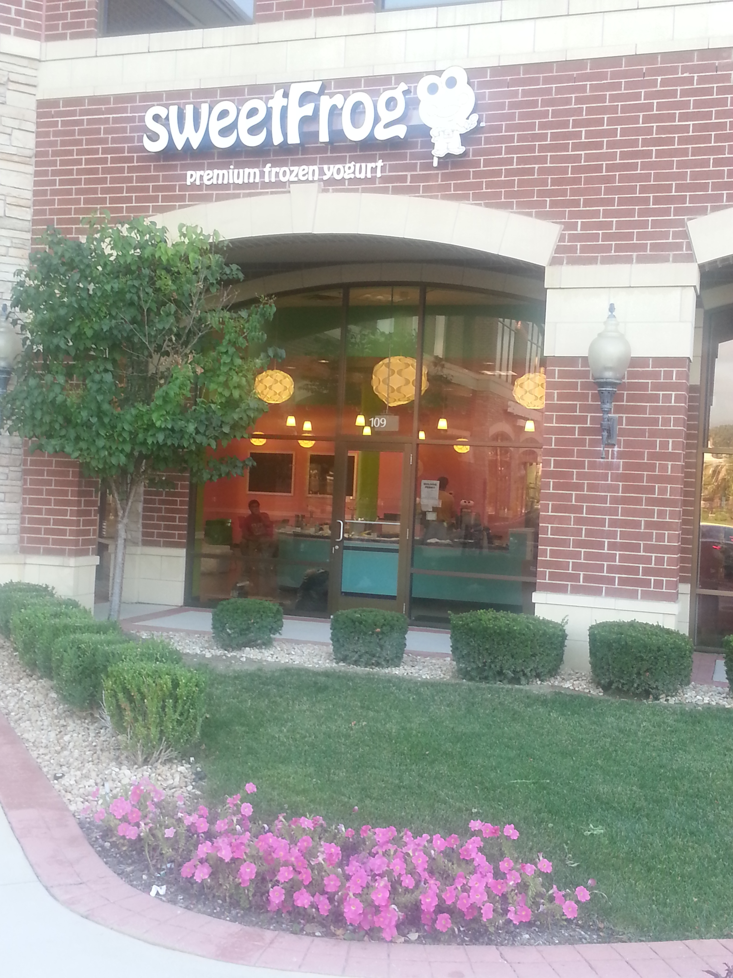 This is the first Sweet Frog - Premium Frozen Yogurt store in Illinois. The address is 9645 Lincoln-way, suite 109, Frankfort, IL 60423.